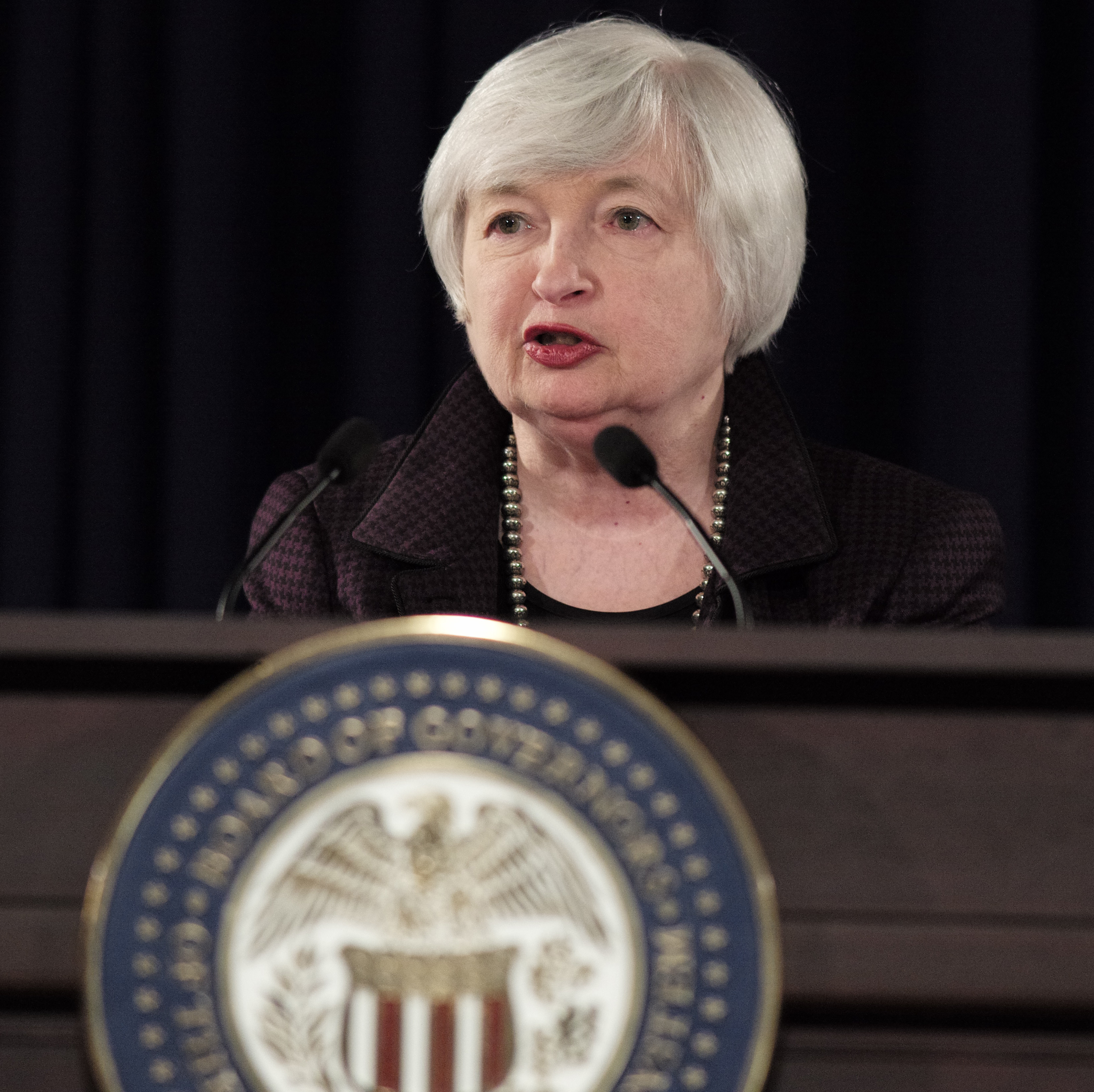 Chair Yellen delivers opening statement at the FOMC press conference.